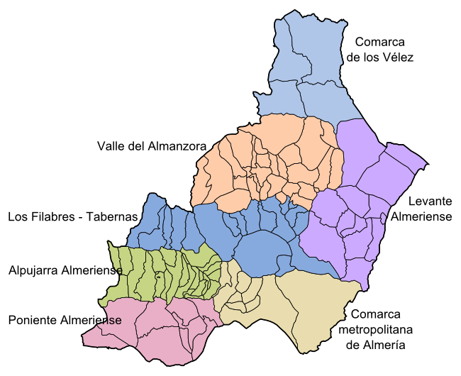 Map of regions of province of Almería